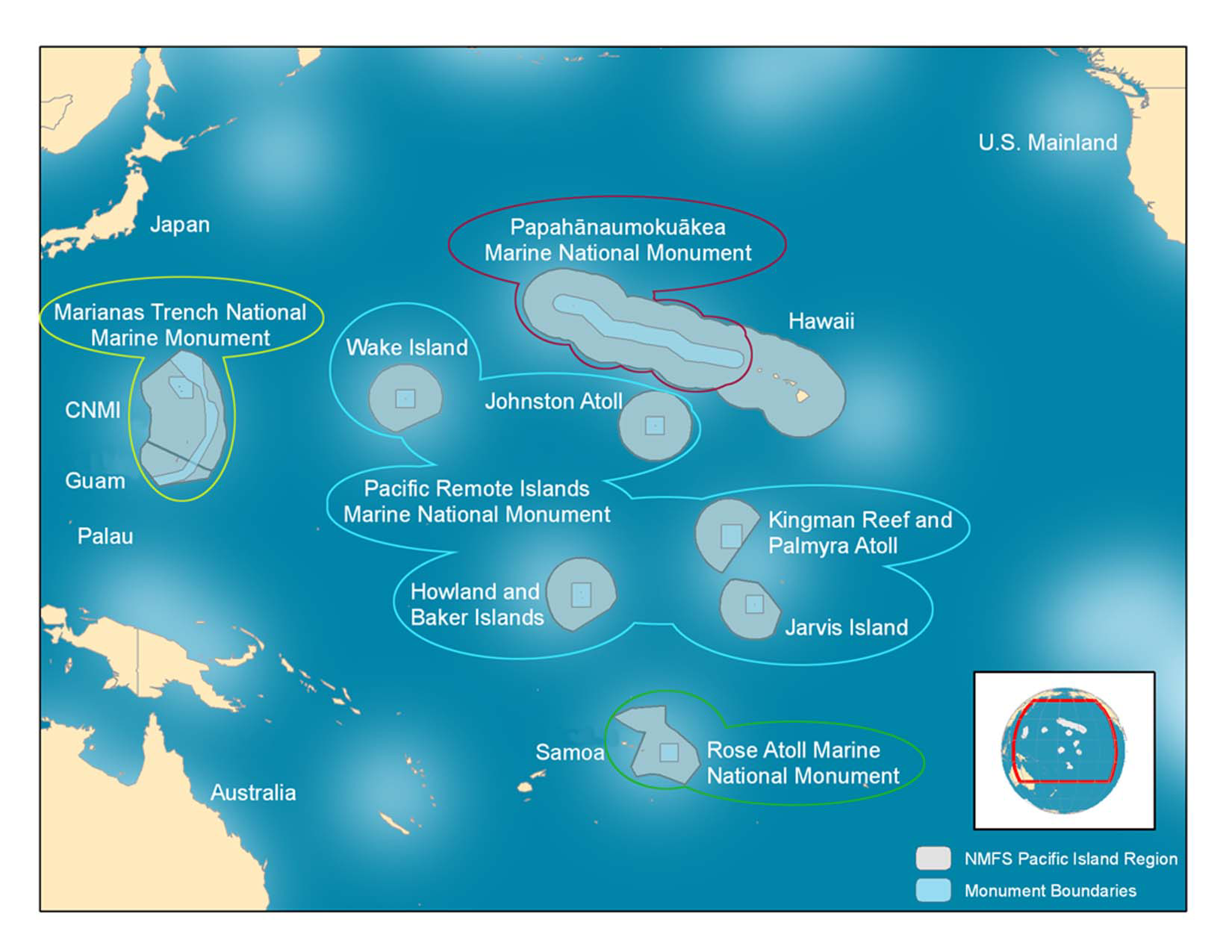 The existing boundaries of the Pacific Remote Islands Marine National Monument are outlined in light blue.